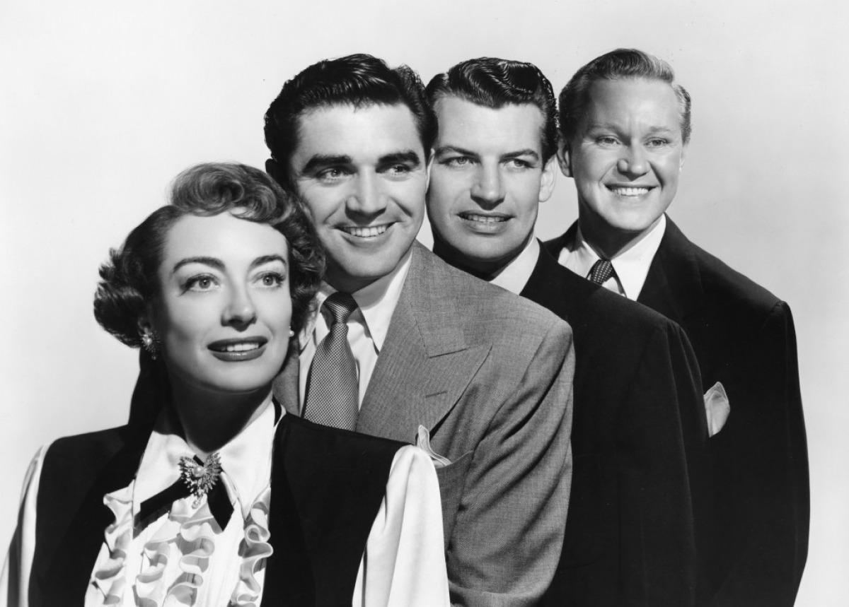 L. to R. : Joan Crawford, Steve Cochran, Richard Egan, and David Brian - Publicity still for The Damned Don't Cry! (1950).